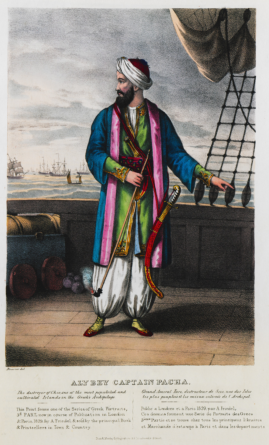 Adam de Friedel. The Greeks, Twenty-four Portraits of the principal Leaders and Personages who have made themselves most conspicuous in the Greek Revolution, from the Commencement of the Struggle, London, Adam de Friedel, 1830.